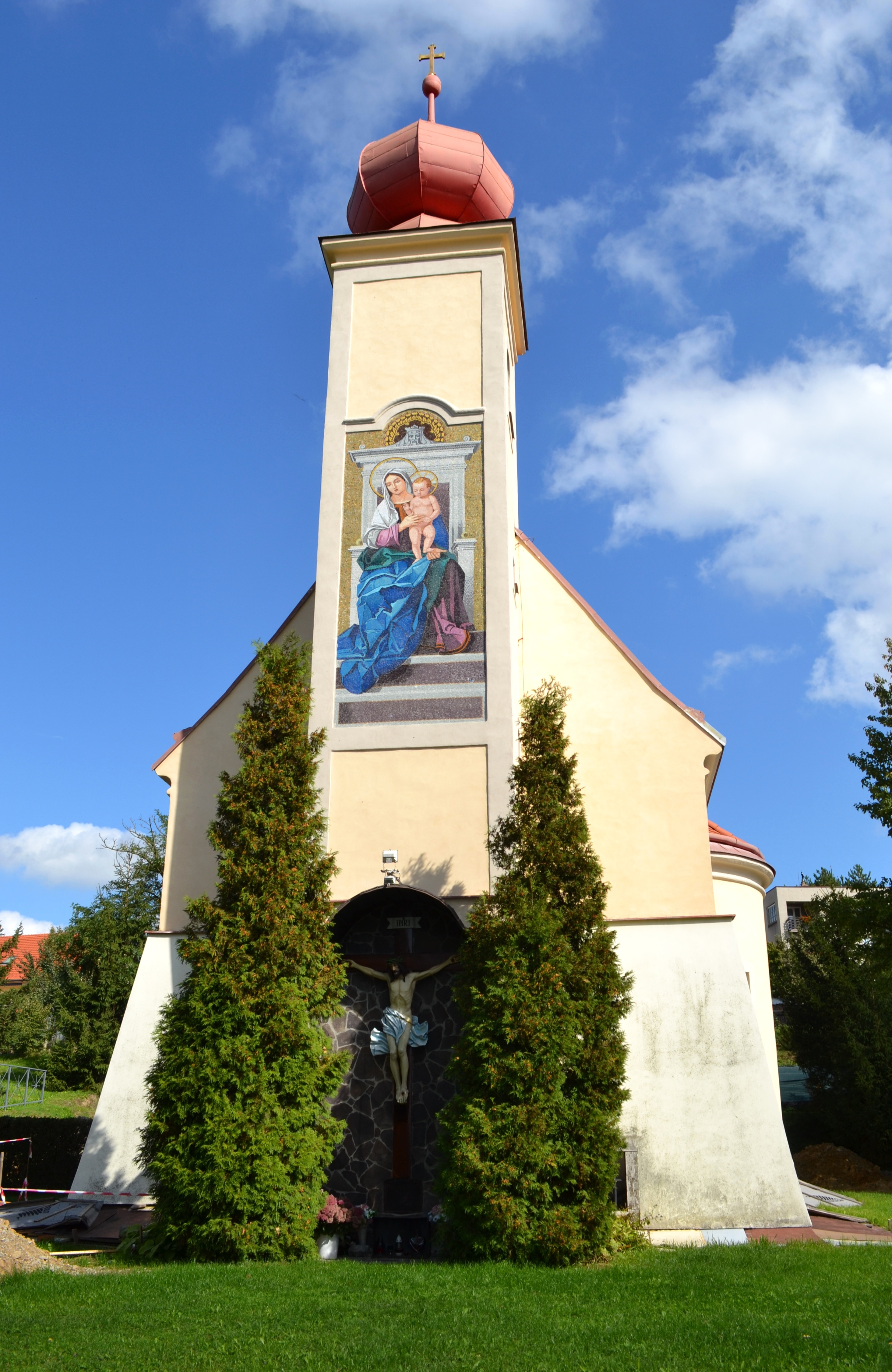 Church of the Sacred Heart of Jesus in Vidiná was completed and consecrated in 1911.